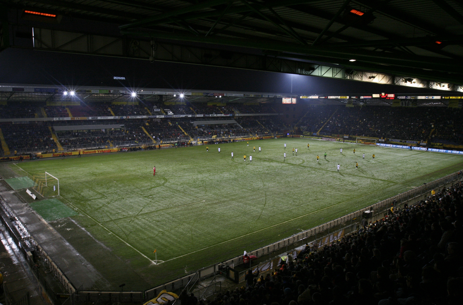 The Rat Verleghstadium in Breda during the 2009-2010 season match NAC Breda - VVV Venlo